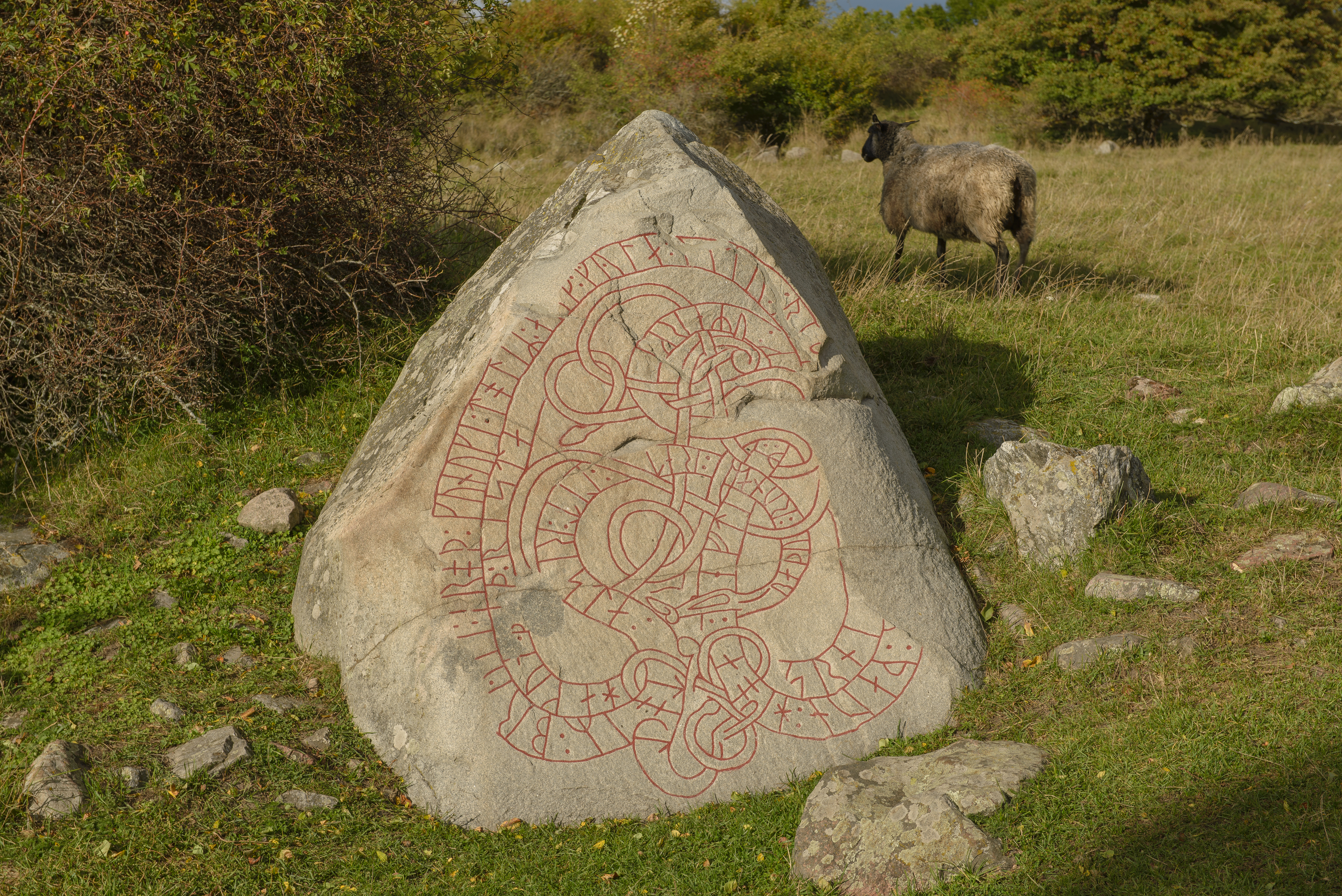 Uppland Runic Inscription 11